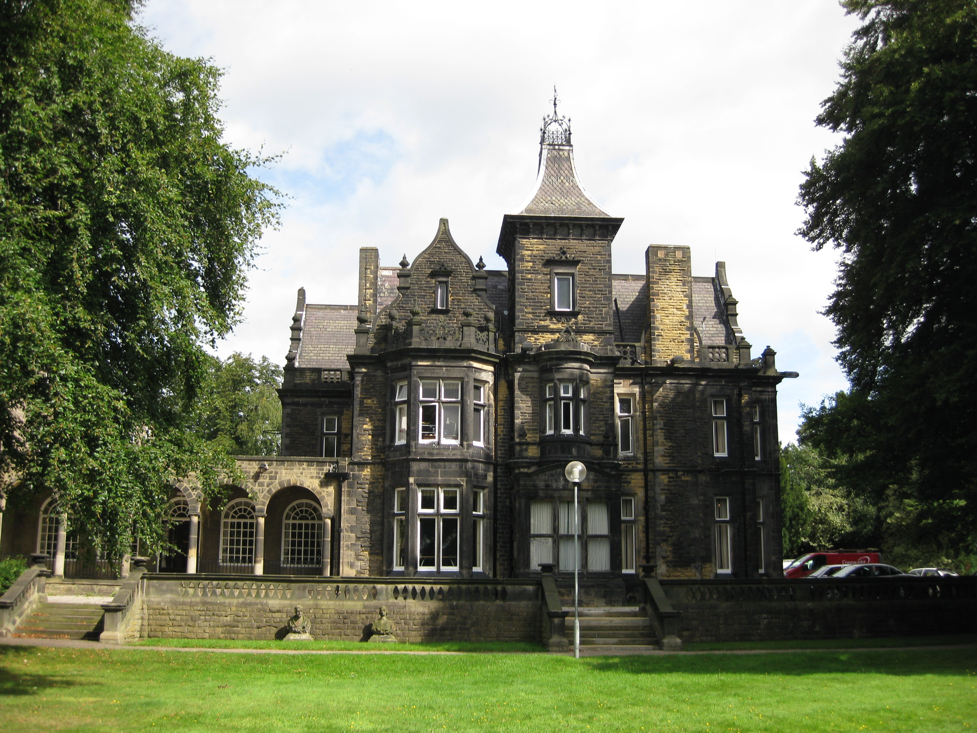 Oxley House, Leeds LS16 8HL. Built 1861 in neo-gothic style. In 1921 became Oxley Hall student residence of the University of Leeds. Now called Oxley House within the Oxley Hall residences.